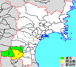 Map of Katta District in Miyagi Prefecture, Japan